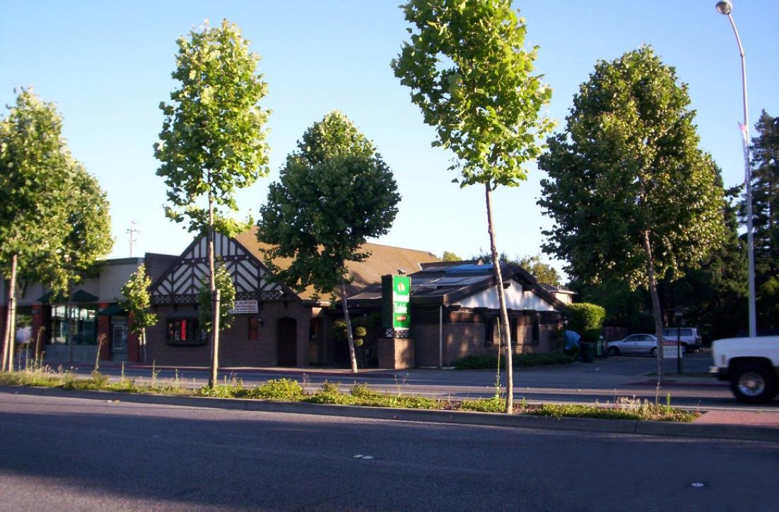 The original store of the Round Table Pizza chain in Menlo Park, California.